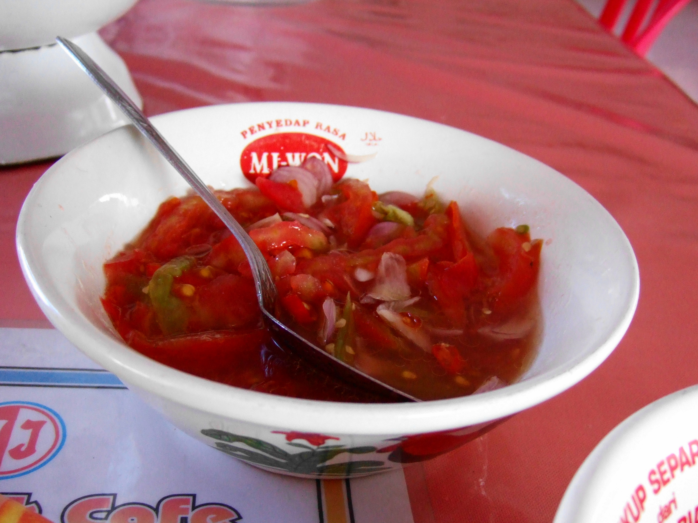 Sliced chili, tomatoes and shallots. Condiments for grilled fish